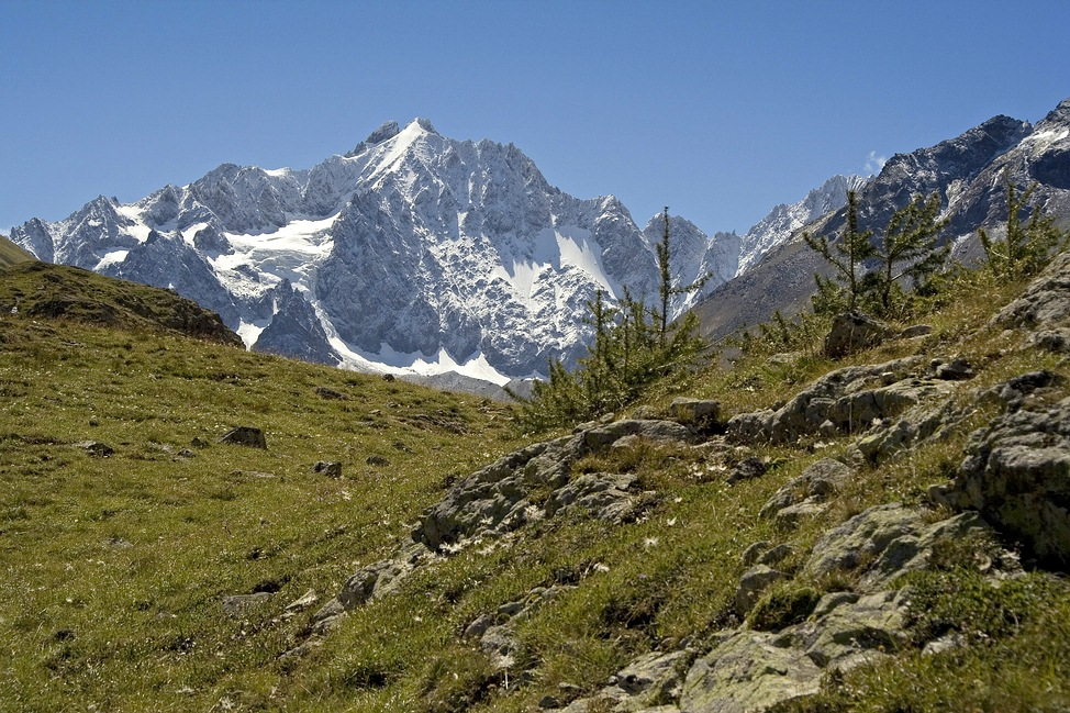 Enter to Romanche valley and Pic de Neige Cordier (3614 m)